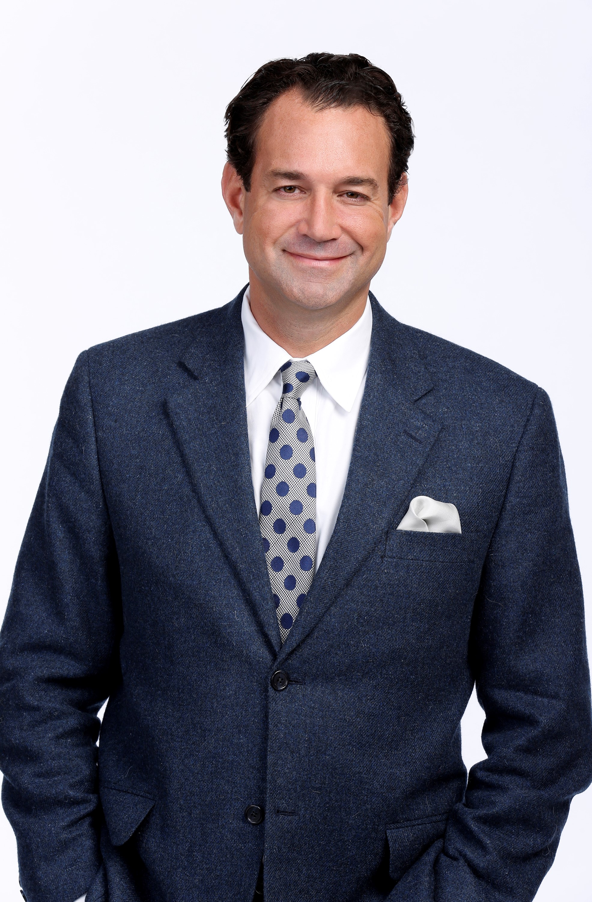 ’90 came to The Washington Center as a criminal law major eyeing a career in the legal field. He left the nation’s capital well on his way to becoming one of daytime television’s most successful producers, winning an Emmy Award as the producer of ABC’s “The View.” Patrick is currently ABC’s vice president of syndication and development. Patrick credits a number of diverse and enriching experiences early in his career as the catalysts for his achievements in such a competitive field. He took some time to share his perspective on what it takes to make it in broadcasting.